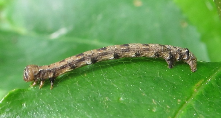 Caterpillar of Agriopis aurantiaria Location: The Netherlands - Ede - Edese Bos